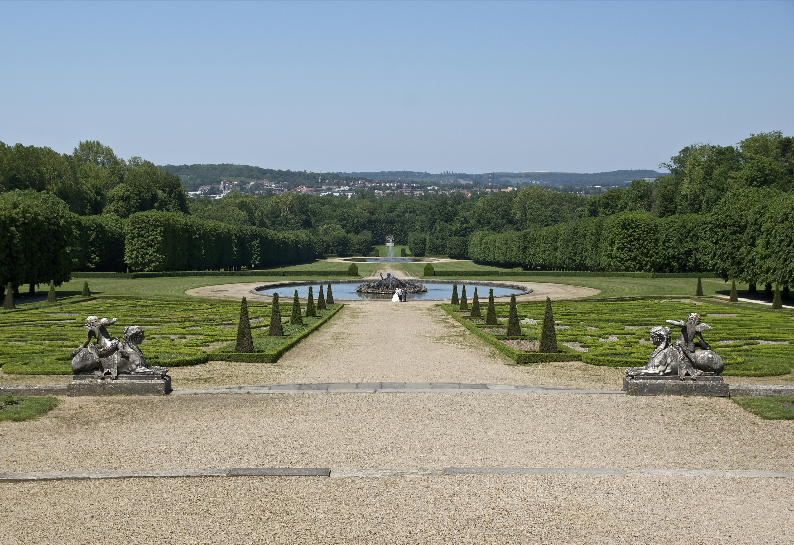 The main perspective in the park of the château de Champs-sur-Marne, Seine-et-Marne, France. Notice the marriage !